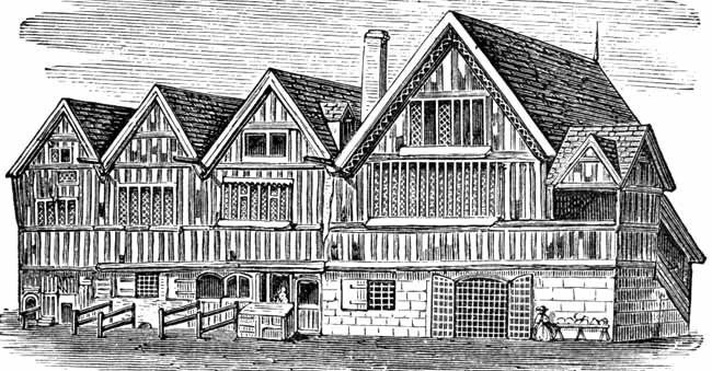 Nottingham Guild Hall in 1750